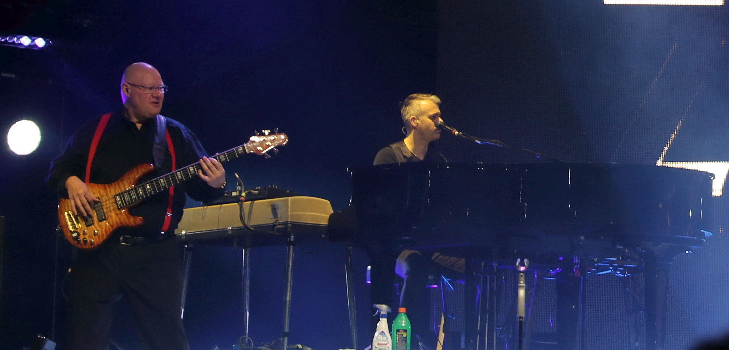 Frank Itt und Pianist der Band von Howard Carpendale in der BigBOX Allgäu am 26. Februar 2016